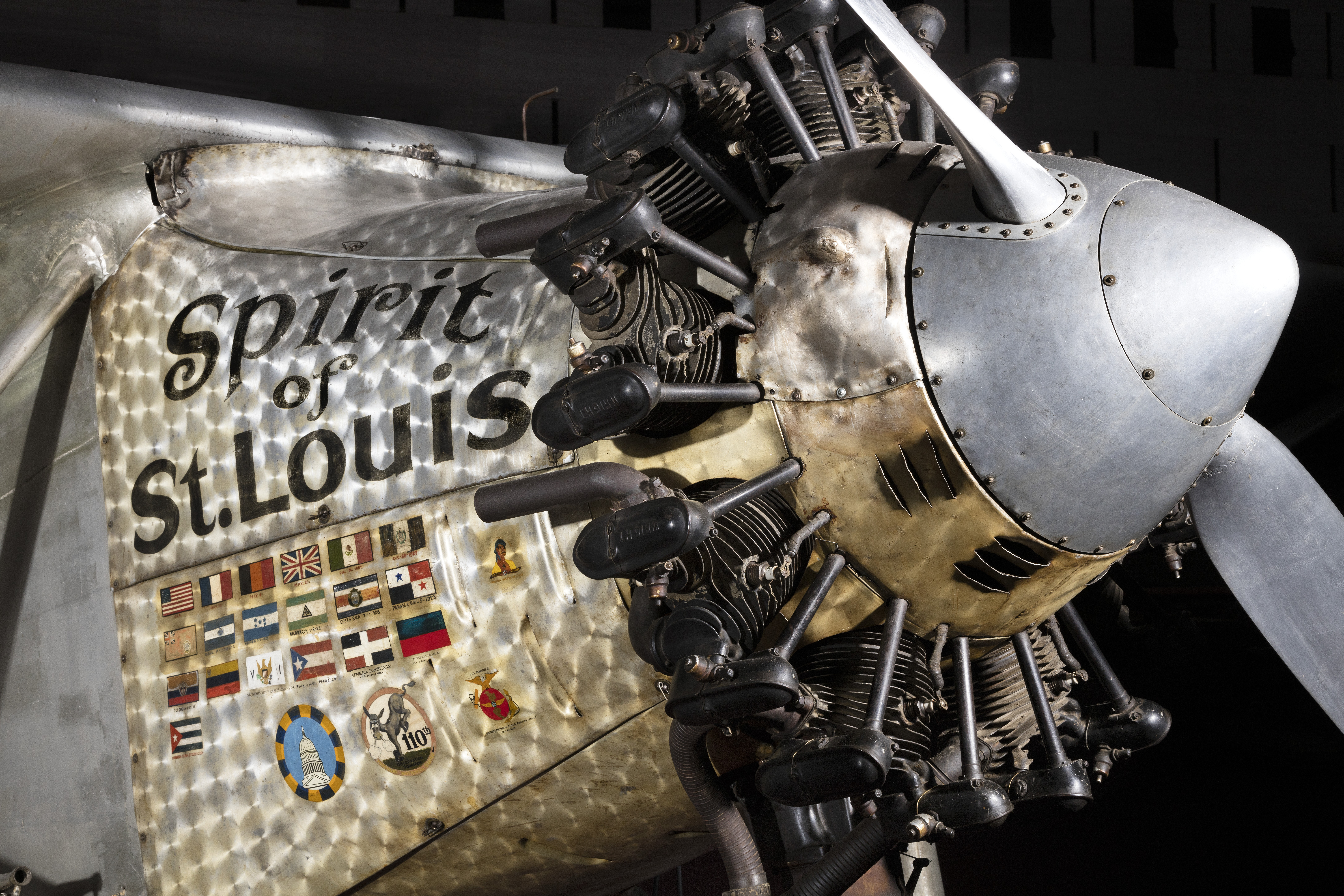 Detail views of the Ryan NYP "Spirit of St. Louis" (A19280021000) made during conservation work in Gallery 100, Smithsonian National Air and Space Museum, Washington, D.C., July 22, 2015. Cowling. Photos by Eric Long. [_T8A5470]